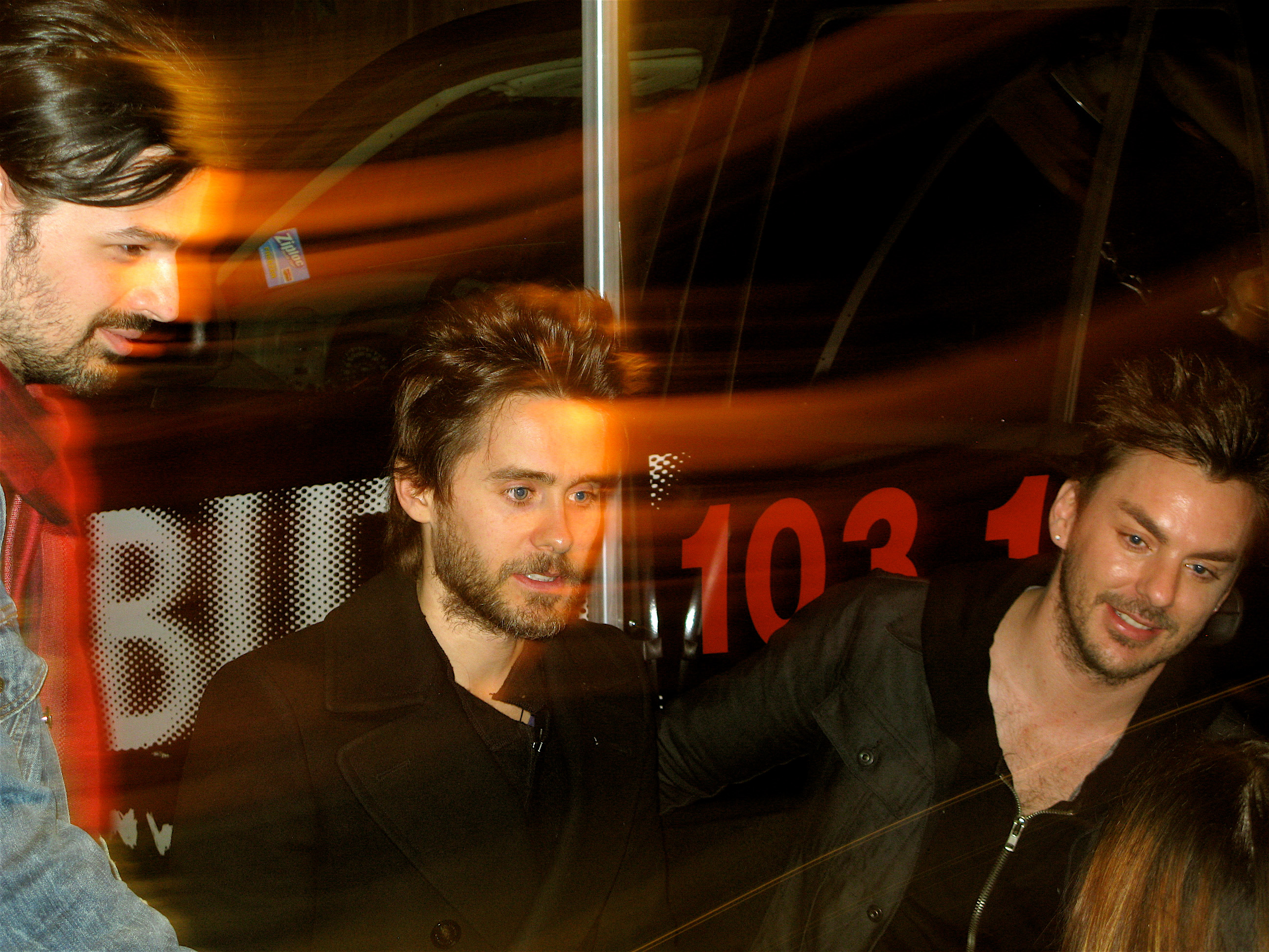 Thirty Seconds to Mars at 2009 Buzz Bake Sale